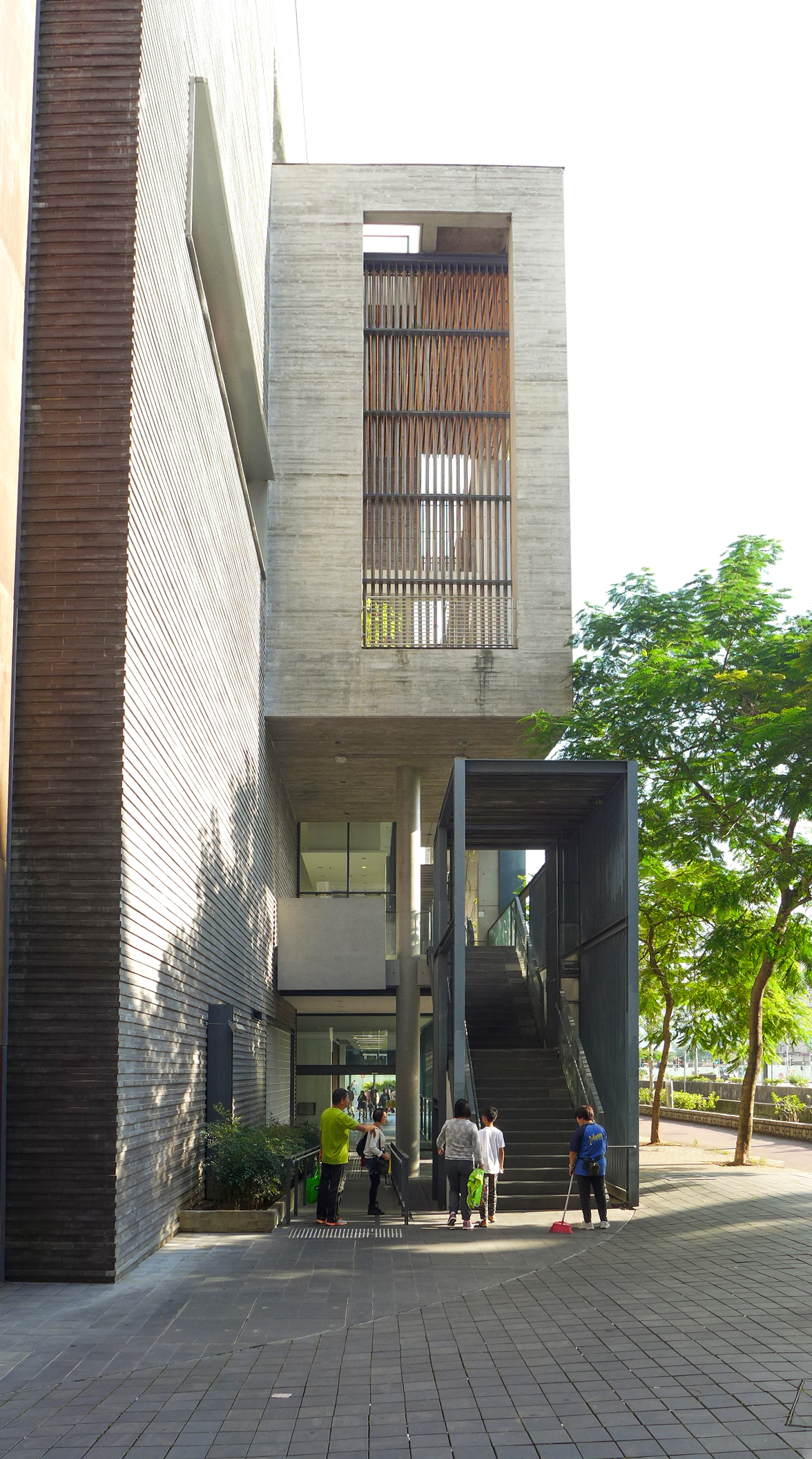 Ping Shan Tin Shui Wai Leisure and Cultural Building